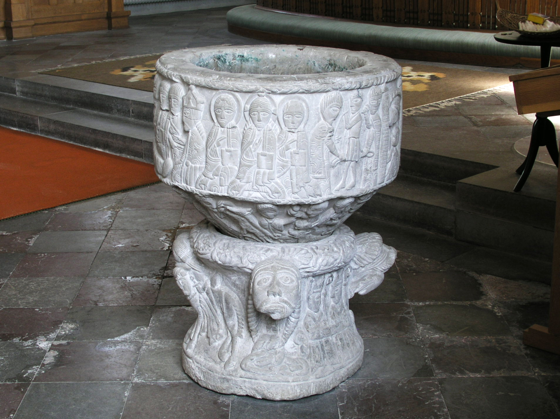 Valleberga kyrka/church. Baptismal font